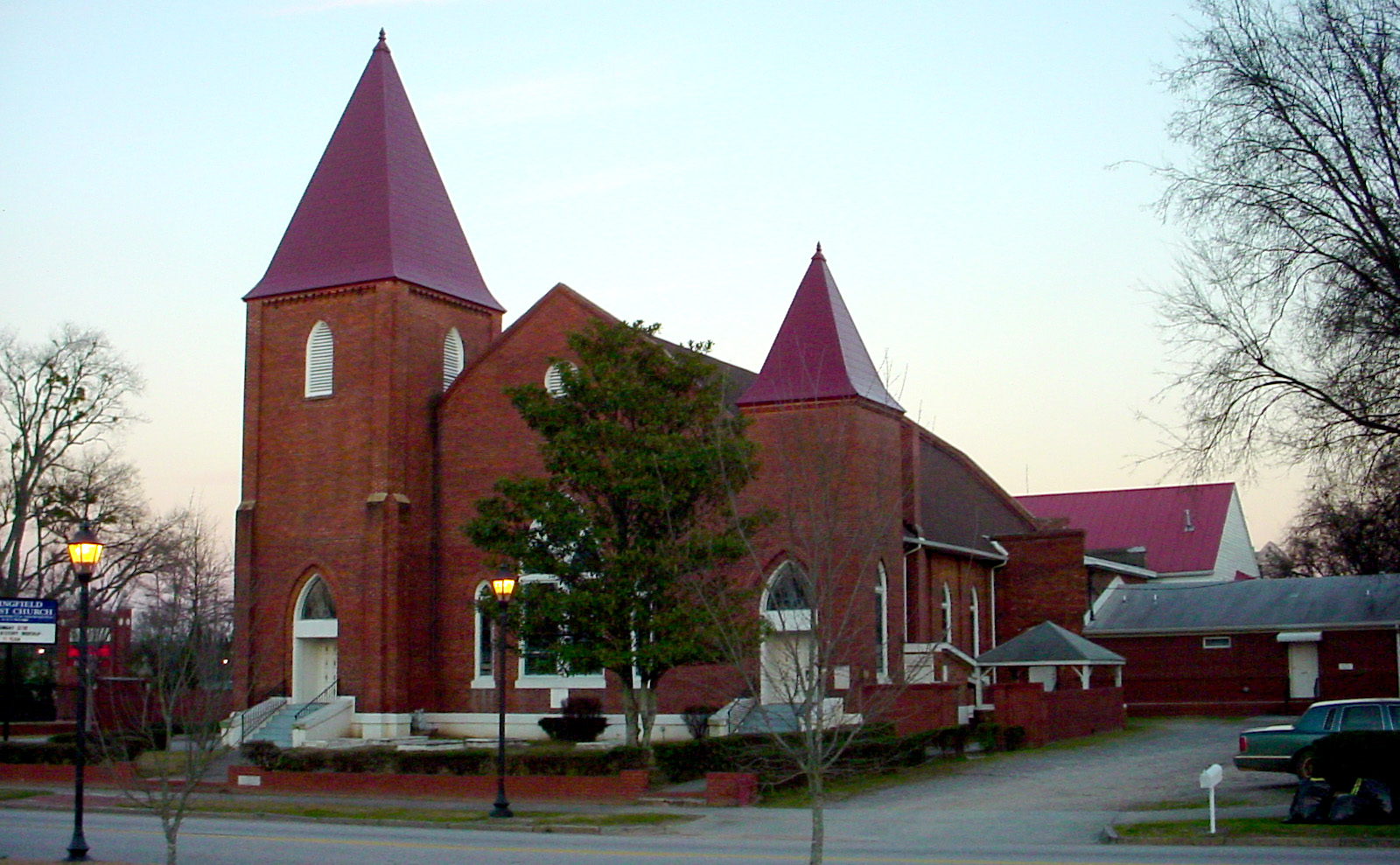 Springfield Baptist Church, Augusta, Georgia, United States. Oldest independent African American church in the United States. Founding site of Augusta Institute, which was located there from 1867-1879. In 1879 the school relocated to Atlanta and was renamed Atlanta Baptist Seminary, and in 1913 was renamed again to Morehouse College.